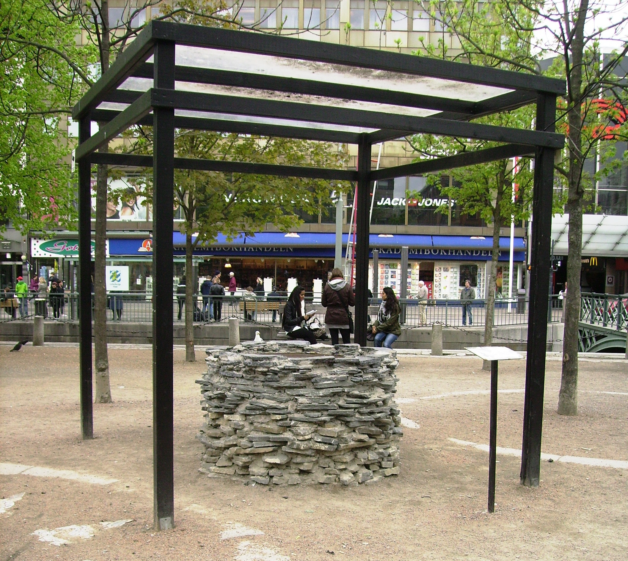 Picture of monument made by Mandana Moghaddam in Gothenburg.